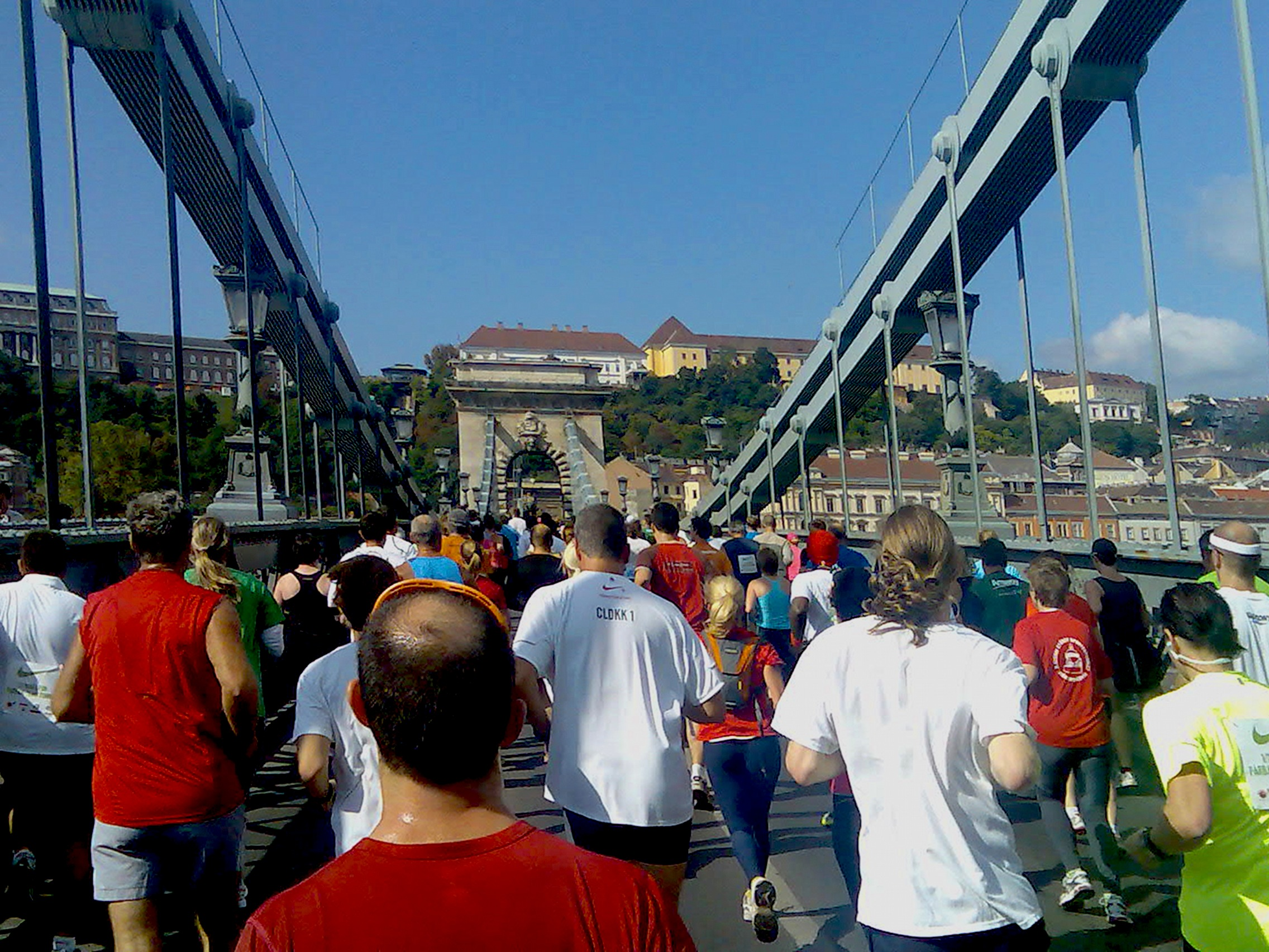 Runners participating at 2010 Budapest Half Marathon Street Race, crossing River Danube at Széchenyi Chain Bridge